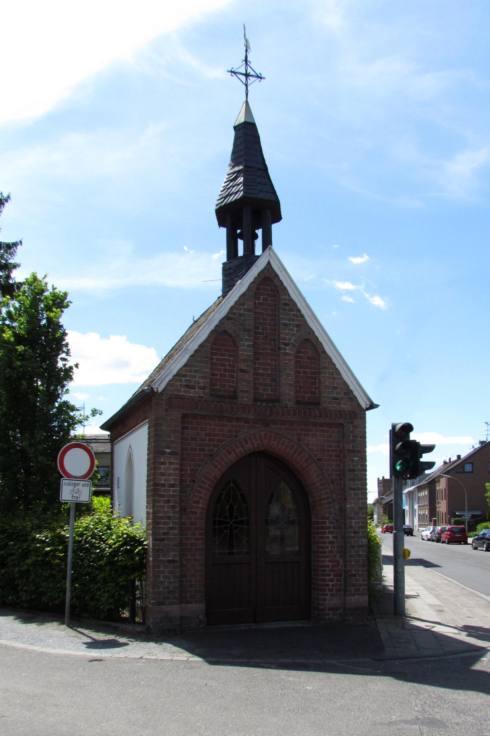 This is a photograph of an architectural monument.It is on the list of cultural monuments of Korschenbroich